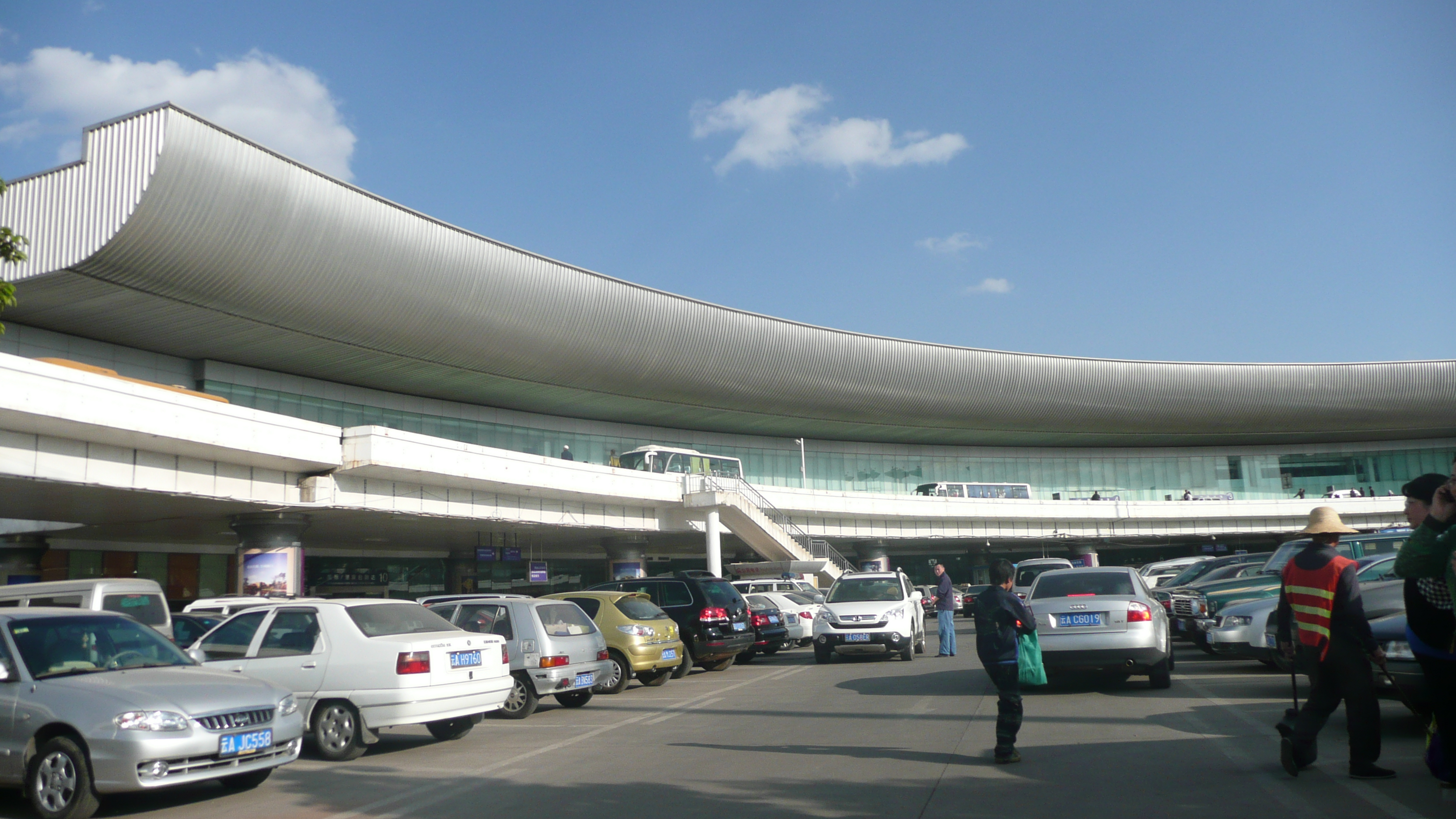 Kunming - Capital of the Chinese province Yunnan